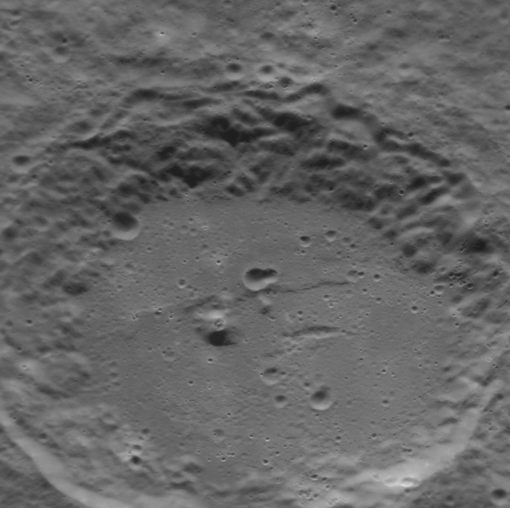 Slightly oblique view of Ravel crater on Mercury. MESSENGER Narrow Angle Camera image. North is to the right. Emission Angle: 34.1 Incidence Angle: 67.2 Latitude: -11.9 Longitude: 321.6 Phase Angle: 101.4